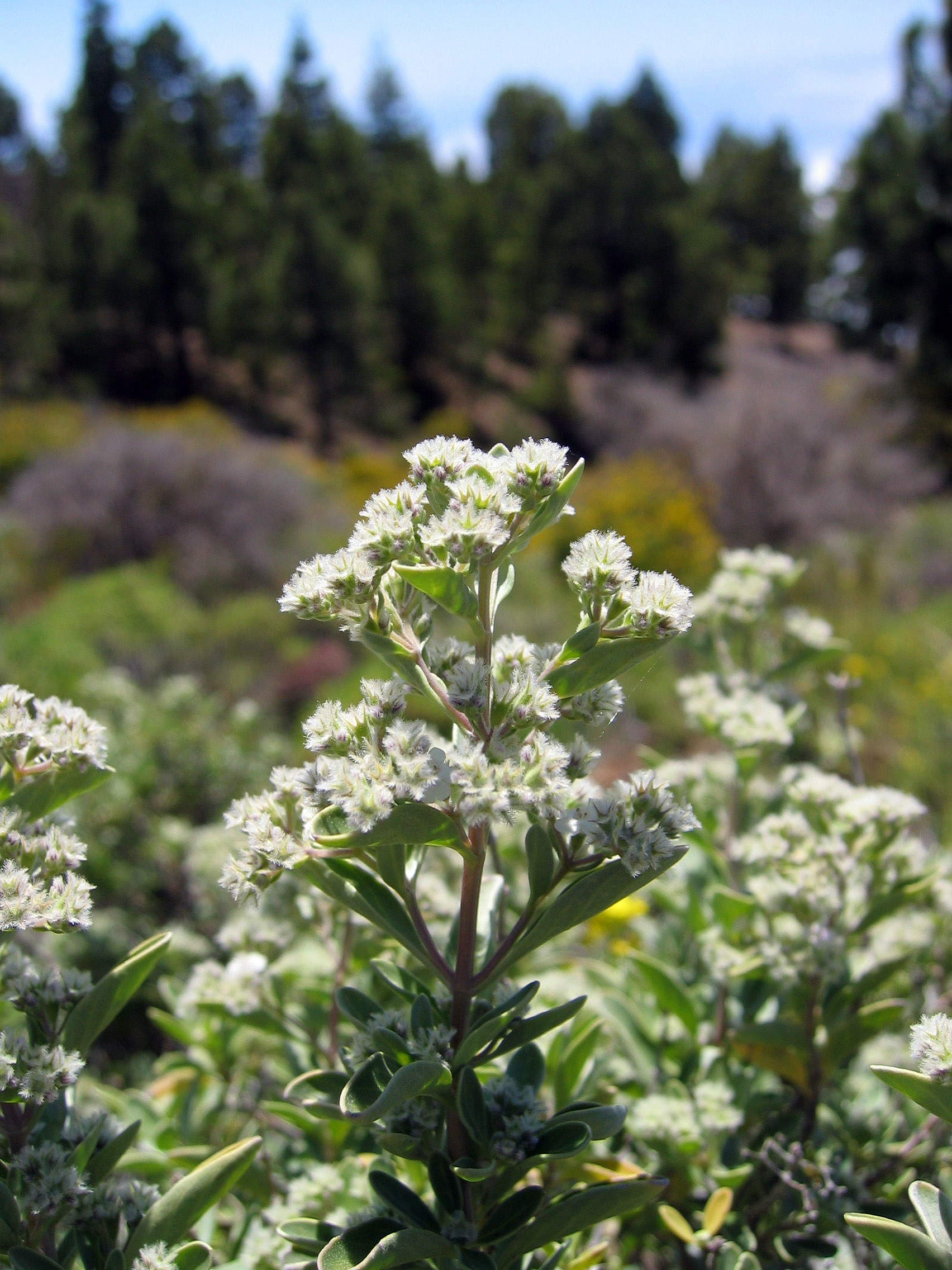 Bystropogon origanifolius, Cumbre Vieja, La Palma, Spain